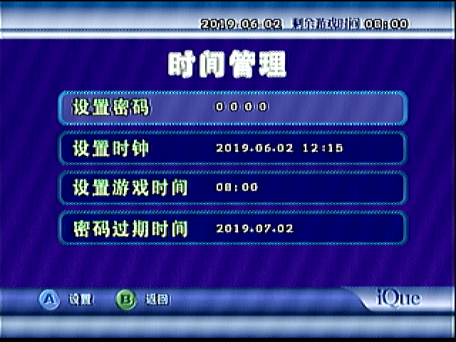 A (bad) image of the iQue Player settings ('management') menu. If possible, this should be updated soon.